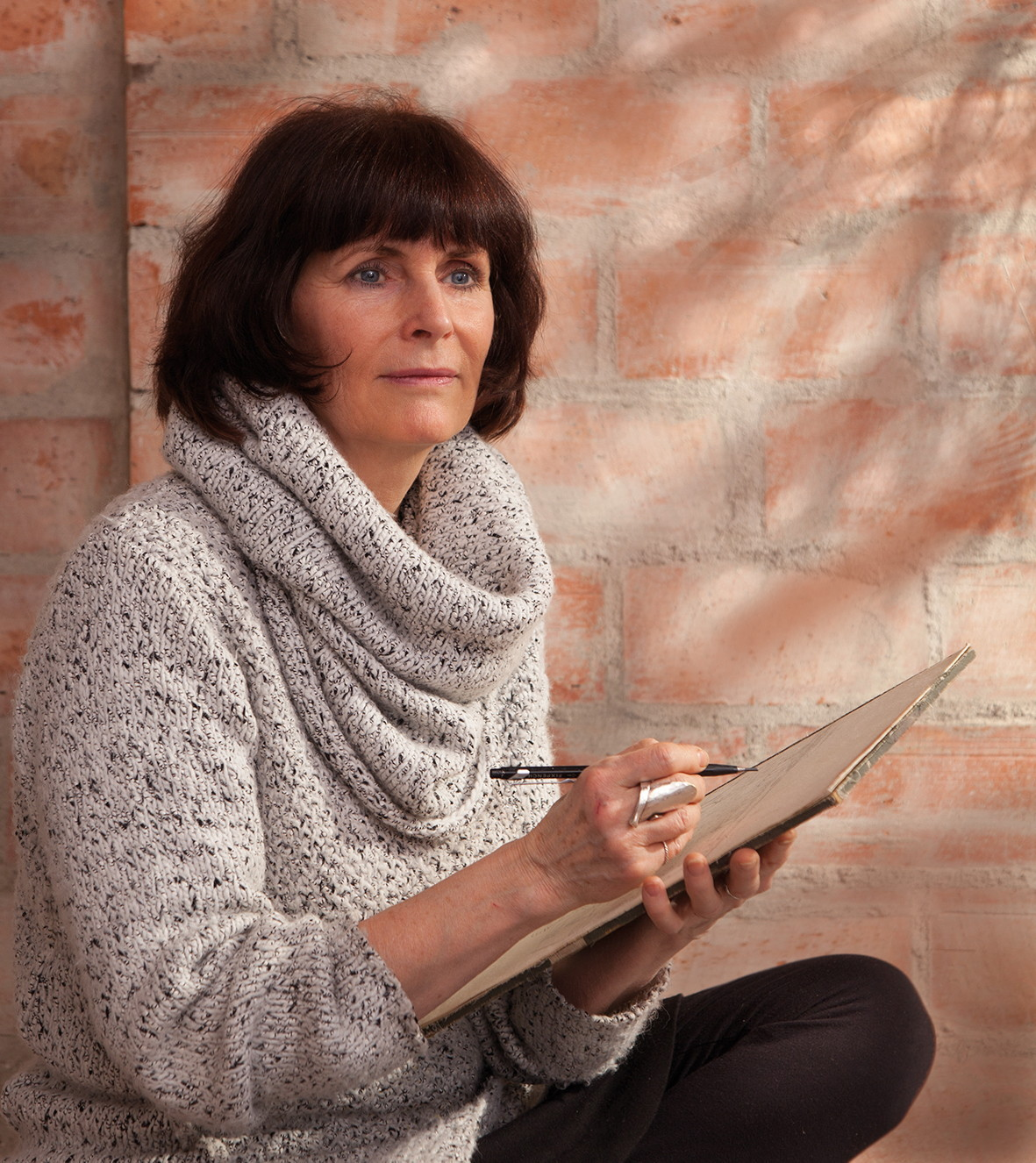 Painter Anna Toresdotter, Sweden, 2014.